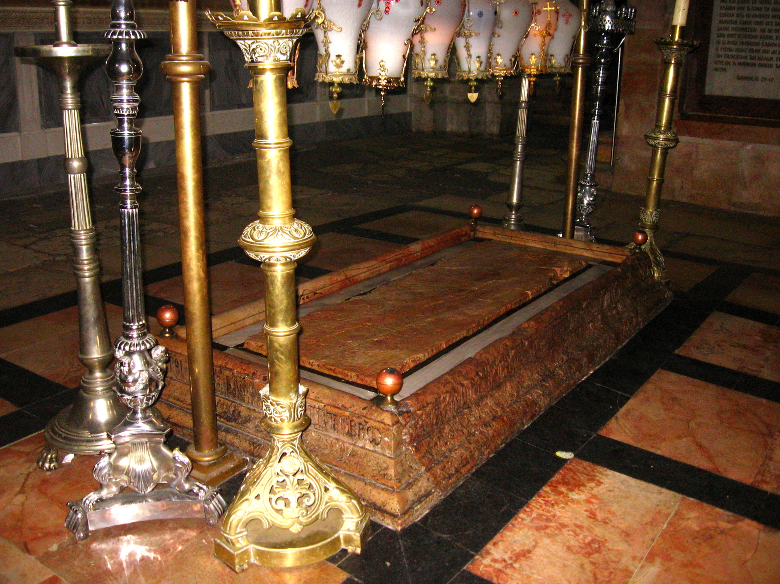 The Stone of the Anointing, Church of the Holy Sepulchre, Jerusalem.